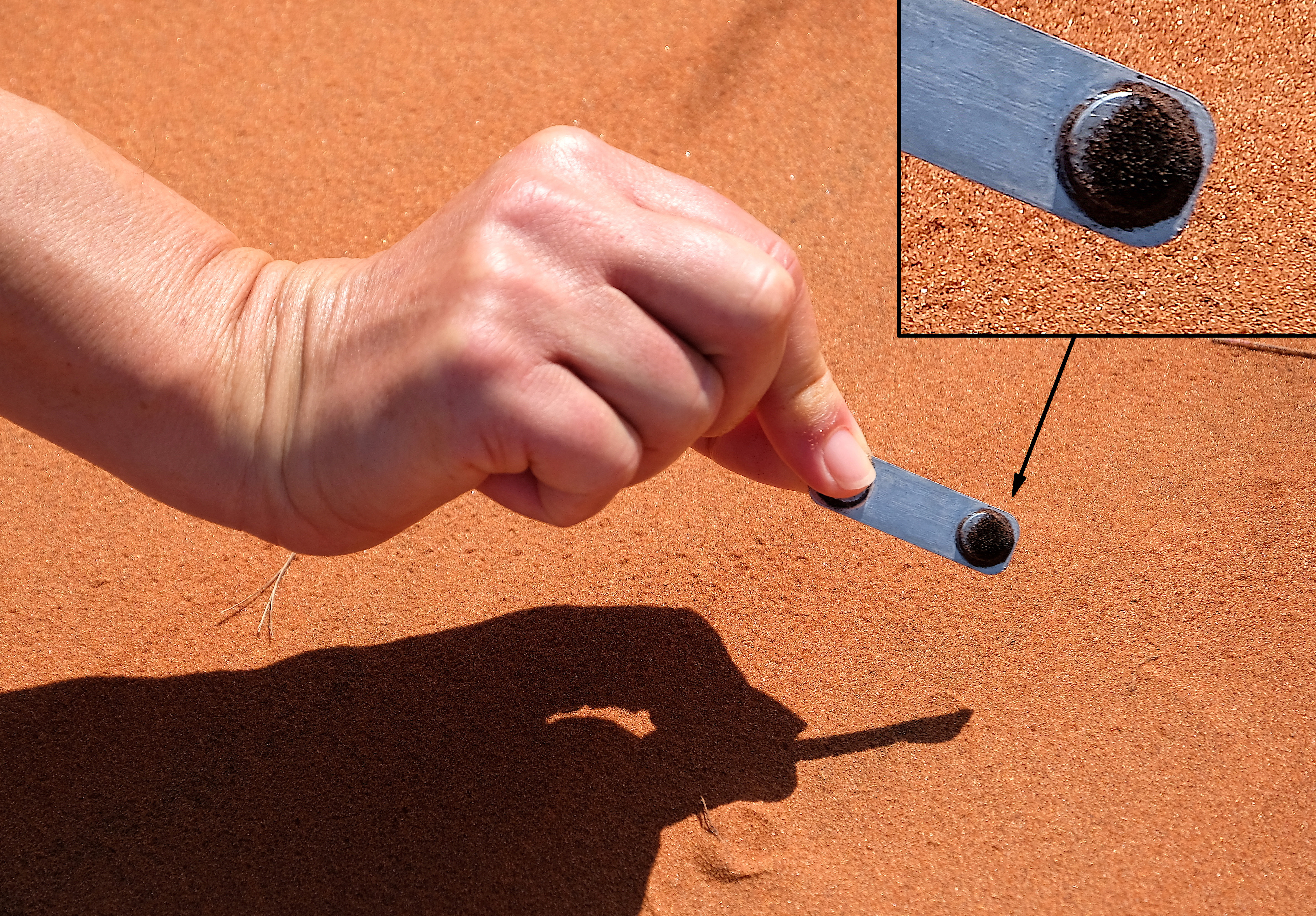 Examination of the composition of the sand of the Namib desert in the Sossusvlei area by pushing a magnet into the sand and pulling it out again. The dark particles coating the magnet (see inset in the top right corner) probably are chemically unweathered or only slightly weathered grains of basalt which contain the ferromagnetic minerals magnetite (Fe3O4) and maghemite (γ-Fe2O3; originates from the arrested chemical weathering of the magnetite under the highly arid conditions in the Namib desert).[1] The proportion of iron compounds is generally relatively high in the Sand as it is expressed by its reddish colour resulting from the advanced chemical weathering of iron-containing minerals. These reddish iron oxides and hydroxides are, however, not ferromagnetic (anymore) and thus do not stick to the magnet.